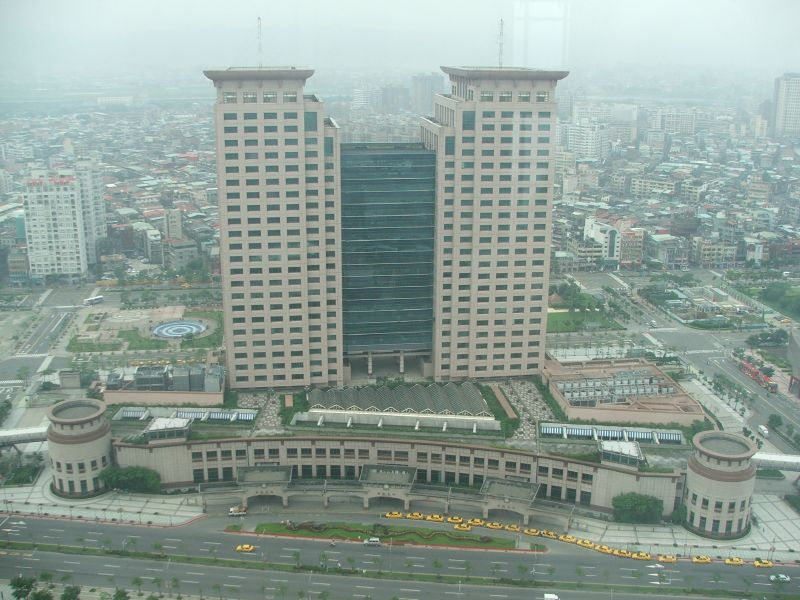 Banqiao Railway Station (板橋火車站) taken from the viewing platform of the Taipei County Government building (台北縣政府).